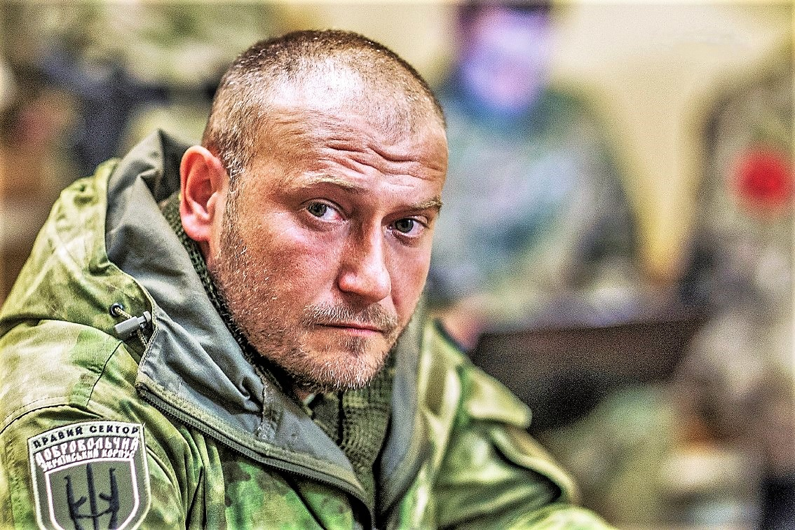 Dmytro Yarosh in Uzhgorod, 19.10.2014